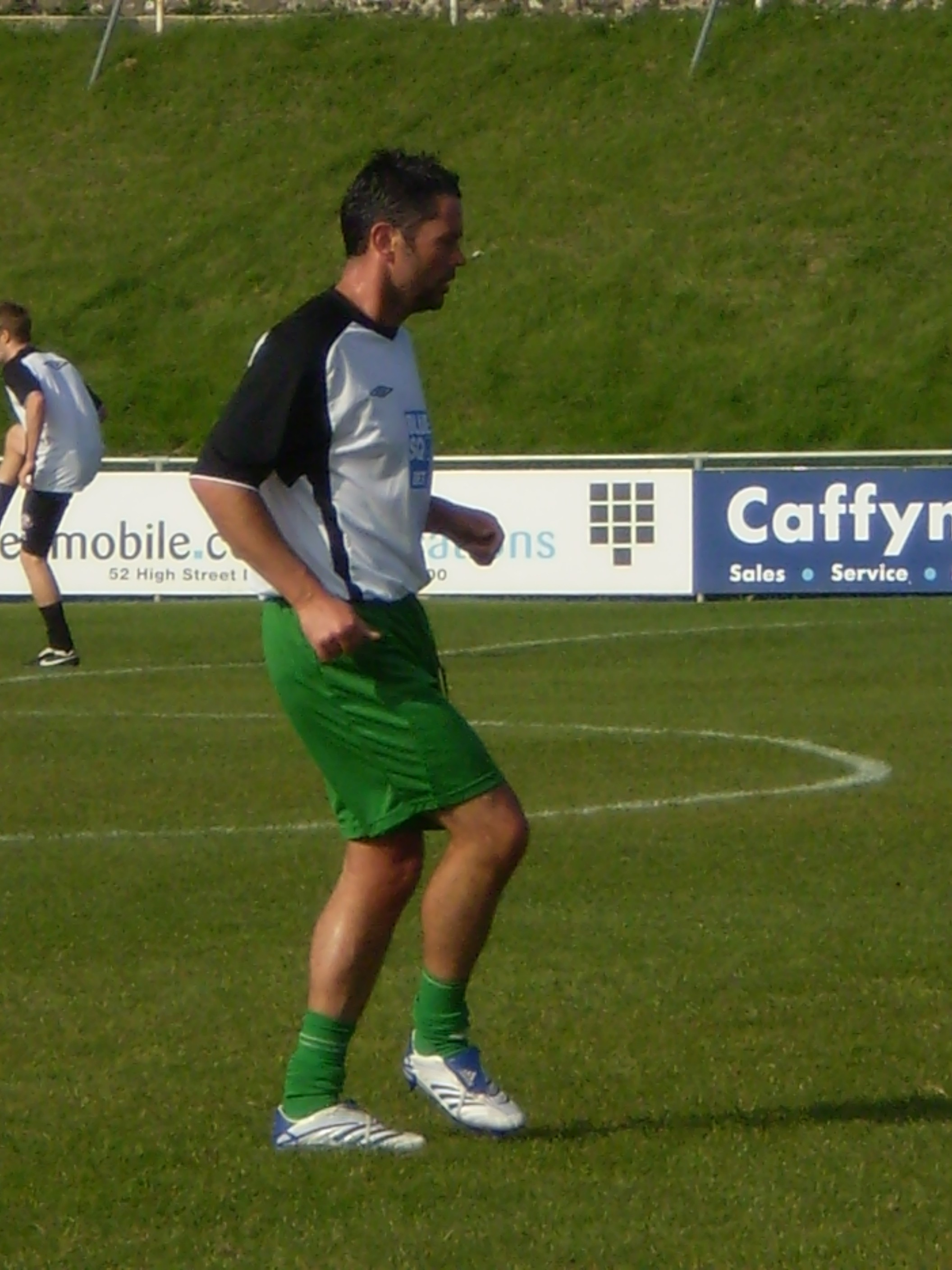 Jerry Gill, then playing for Forest Green Rovers F.C., warms up before the match away at Lewes F.C. in the Football Conference 2008–09 season